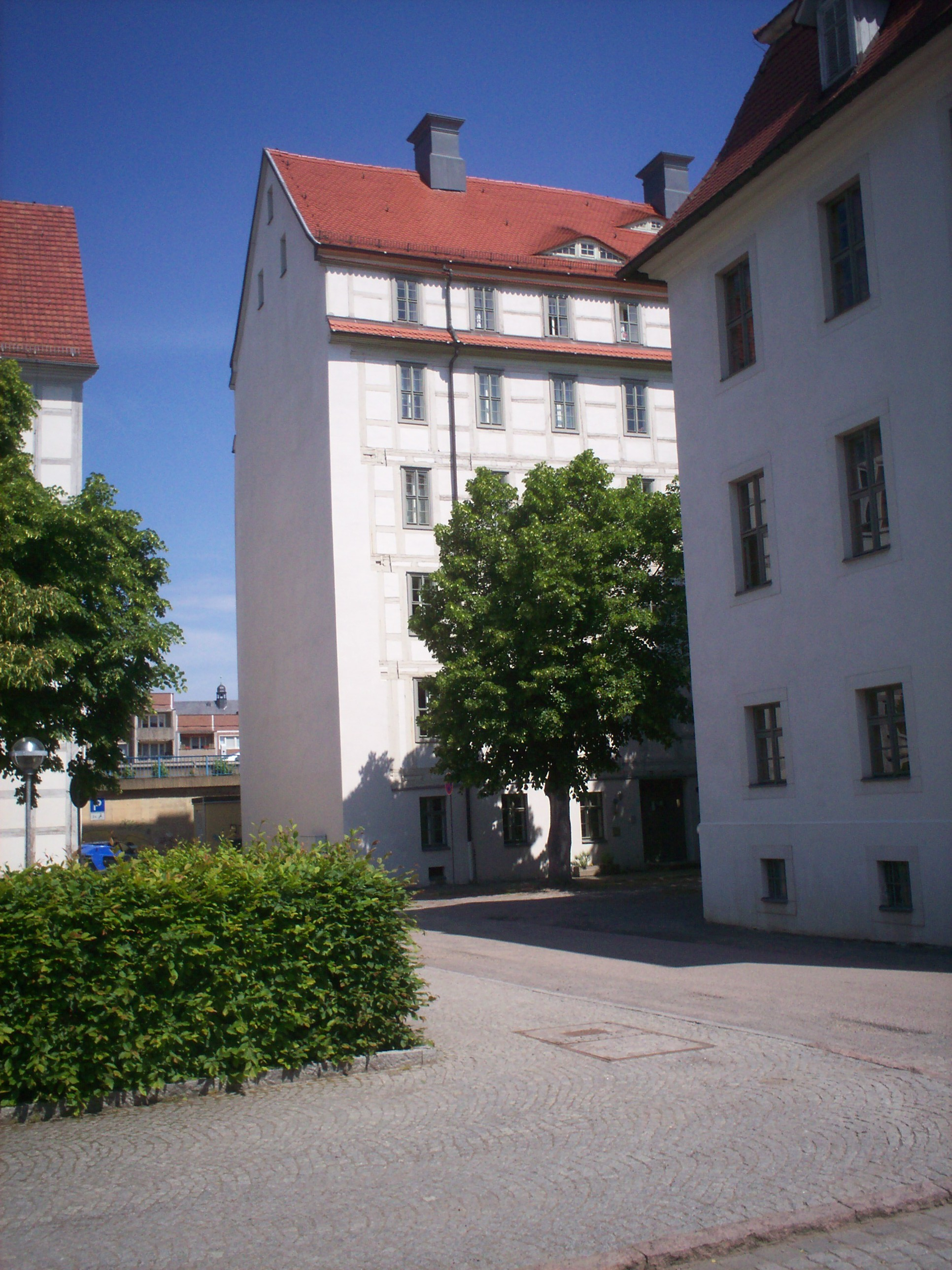 The Evangelische Konvikt in the Franckesche Stiftungen, House 8 and 9